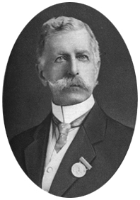 General Kurt W. von Pfuel (Chairman of the Central Committee of the German Red Cross)